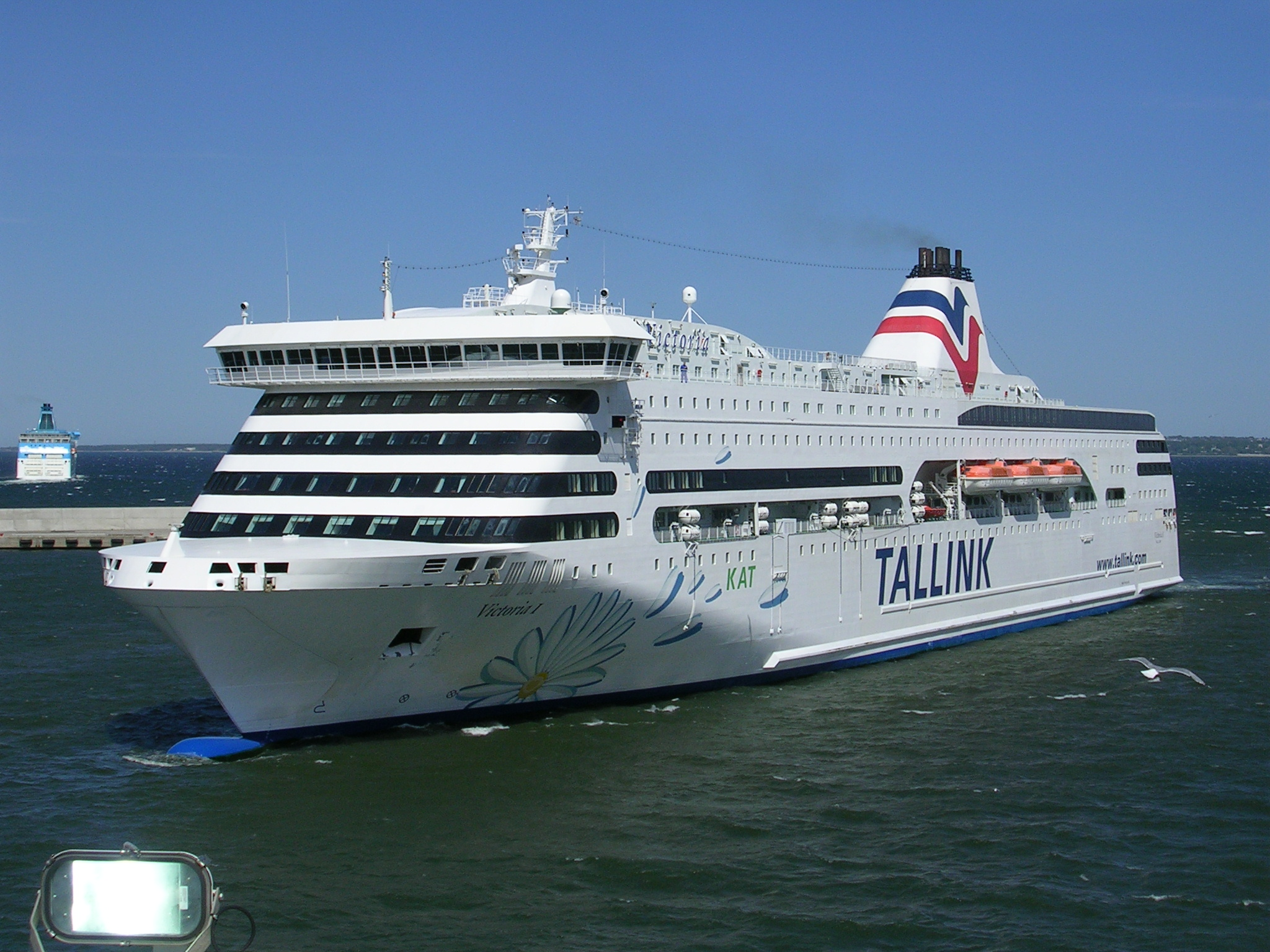 Tallink M/S Victoria I in Tallinn harbour. M/S Galaxy departing for Helsinki in the backround. IMO Nummer: 9281281 MMSI Nummer: 276519000 Rufzeichen: ESRP Länge: 193 m Breite: 29 m